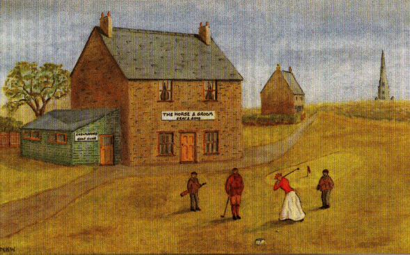 Ken Wardens impression of the first clubhouse at the Horse & Groom, Galleywood Common